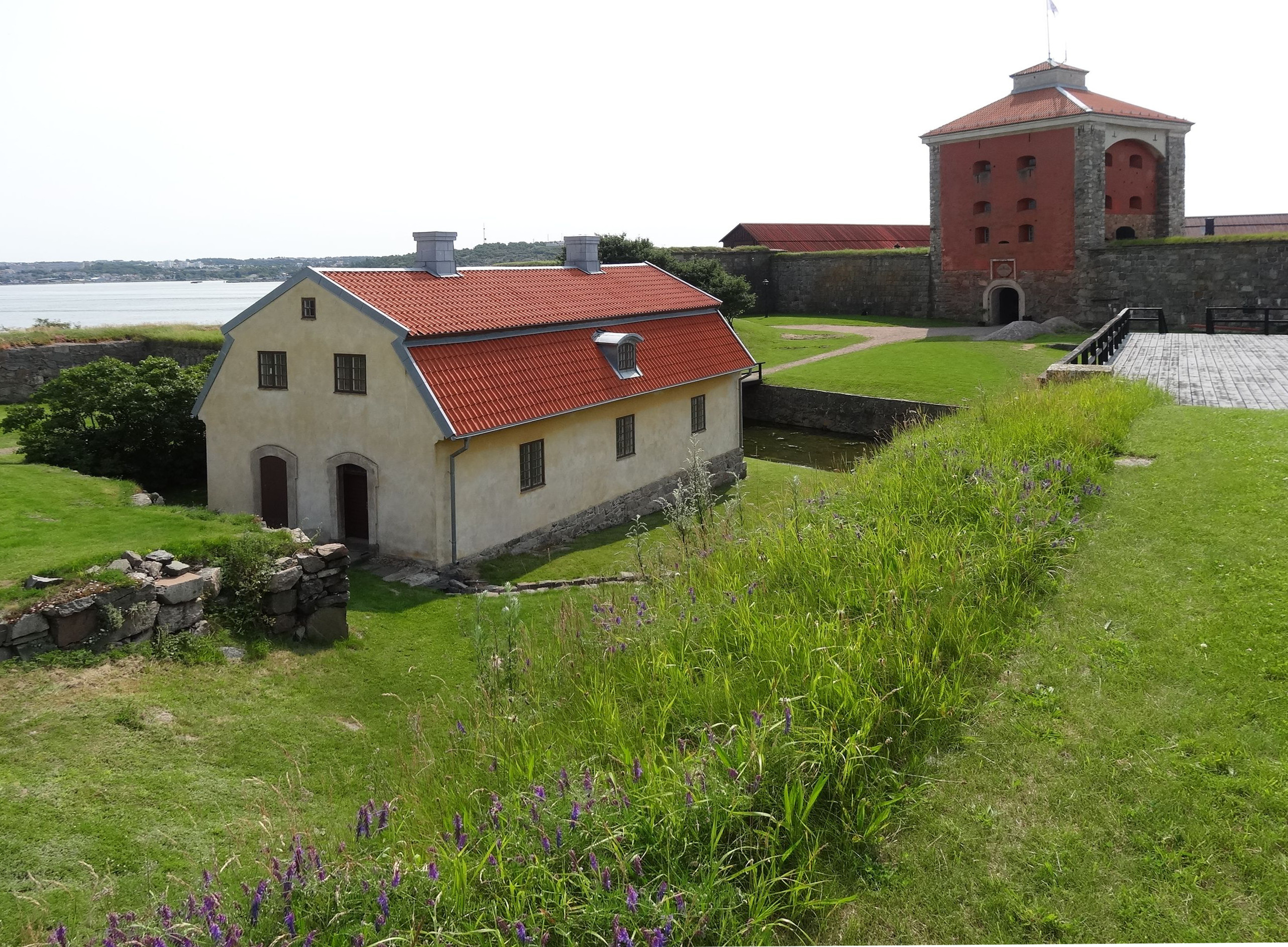 The old infirmary, now museum, on Nya Älvsborg fortress, Sweden. View from northwest.